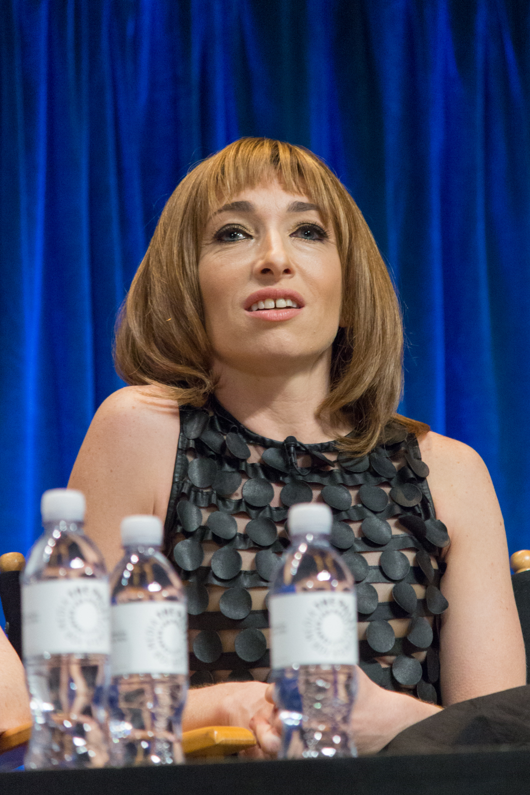 Naomi Grossman at PaleyFest 2013 for the TV show "American Horror Story: Asylum"